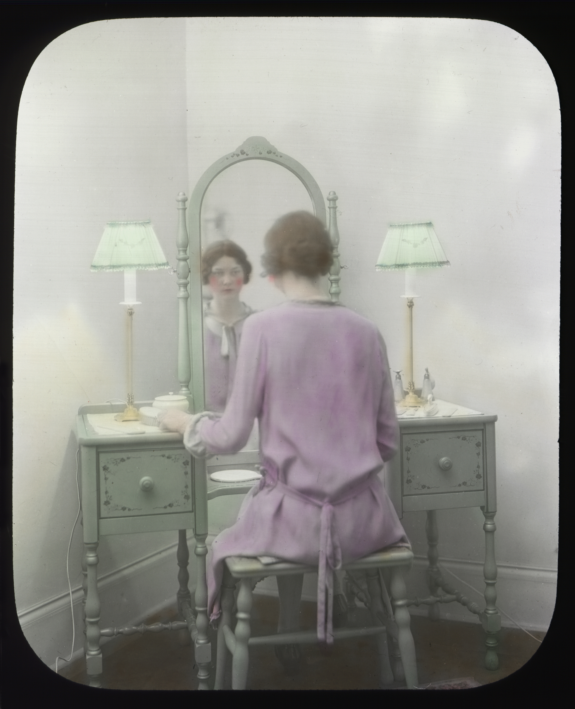 Woman at mirror, circa 1930s Item 78068, City Light Glass Lantern Slides (Record Series 1204-03), Seattle Municipal Archives.